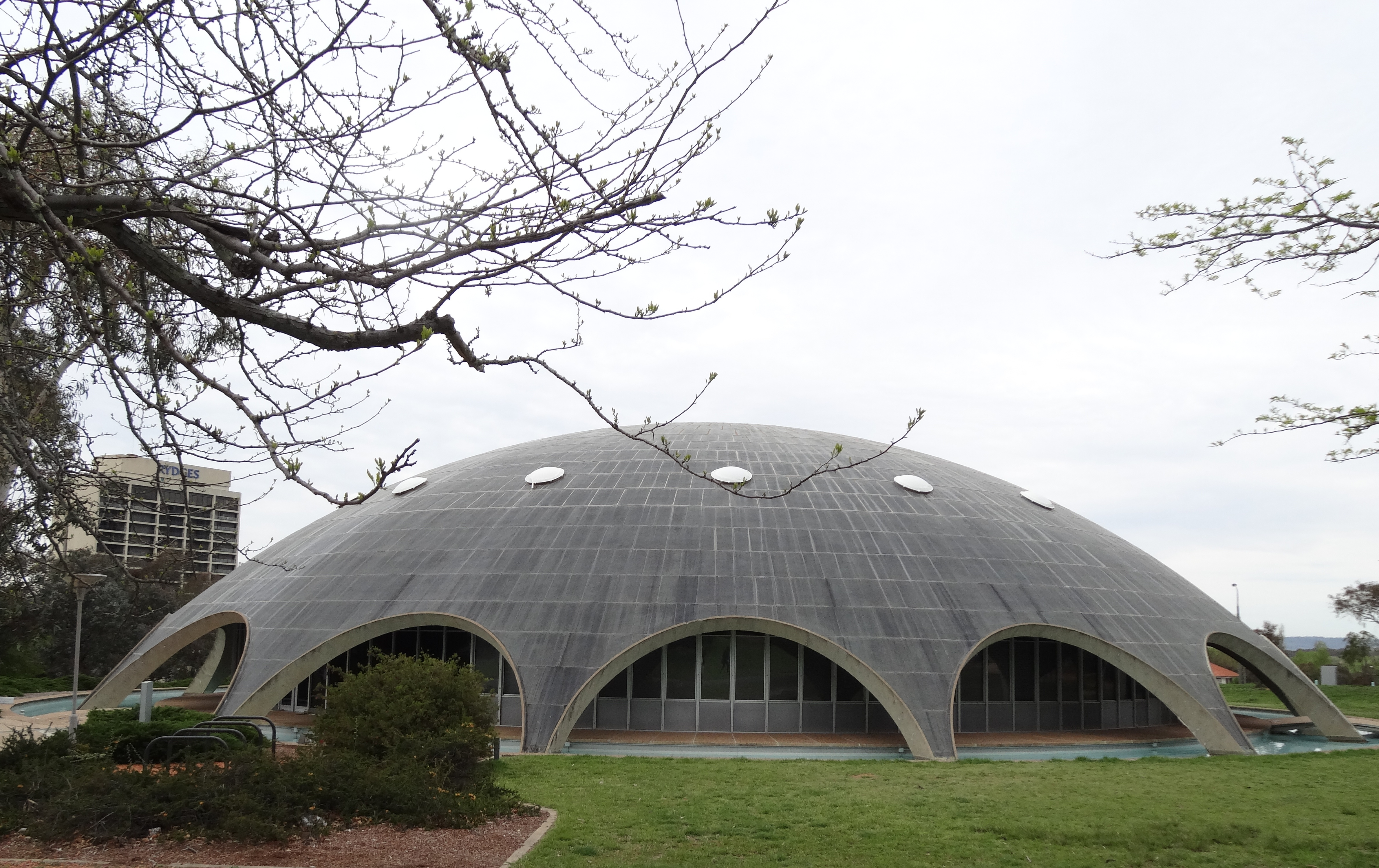 The old domed Academy of Science building in Canberra now called the Shine building.